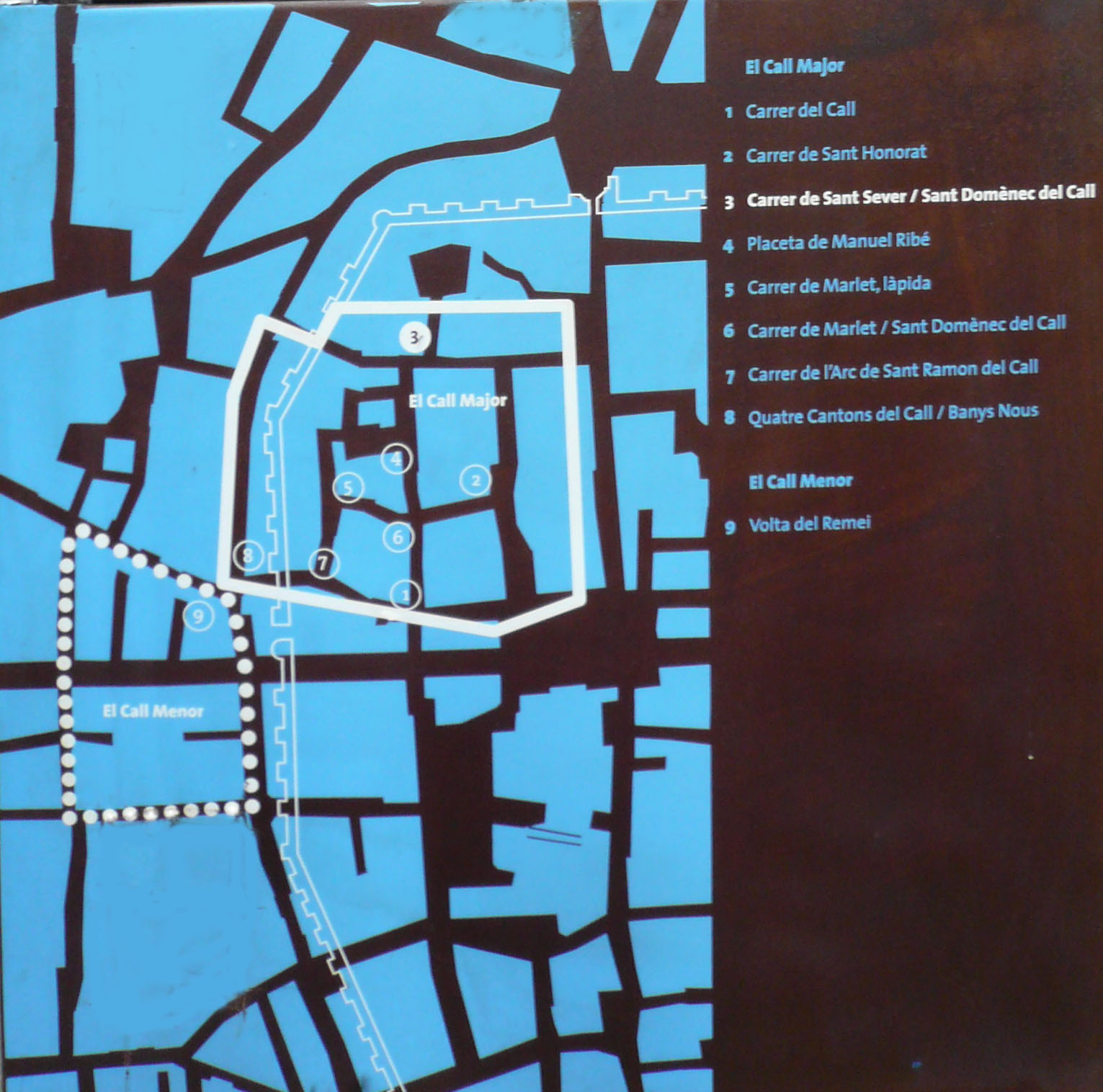 Jewish quarter of Barcelona. Edited photography of an information panel